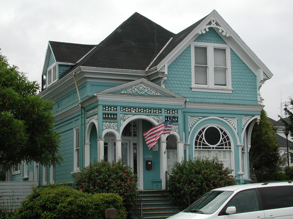 Victorian House